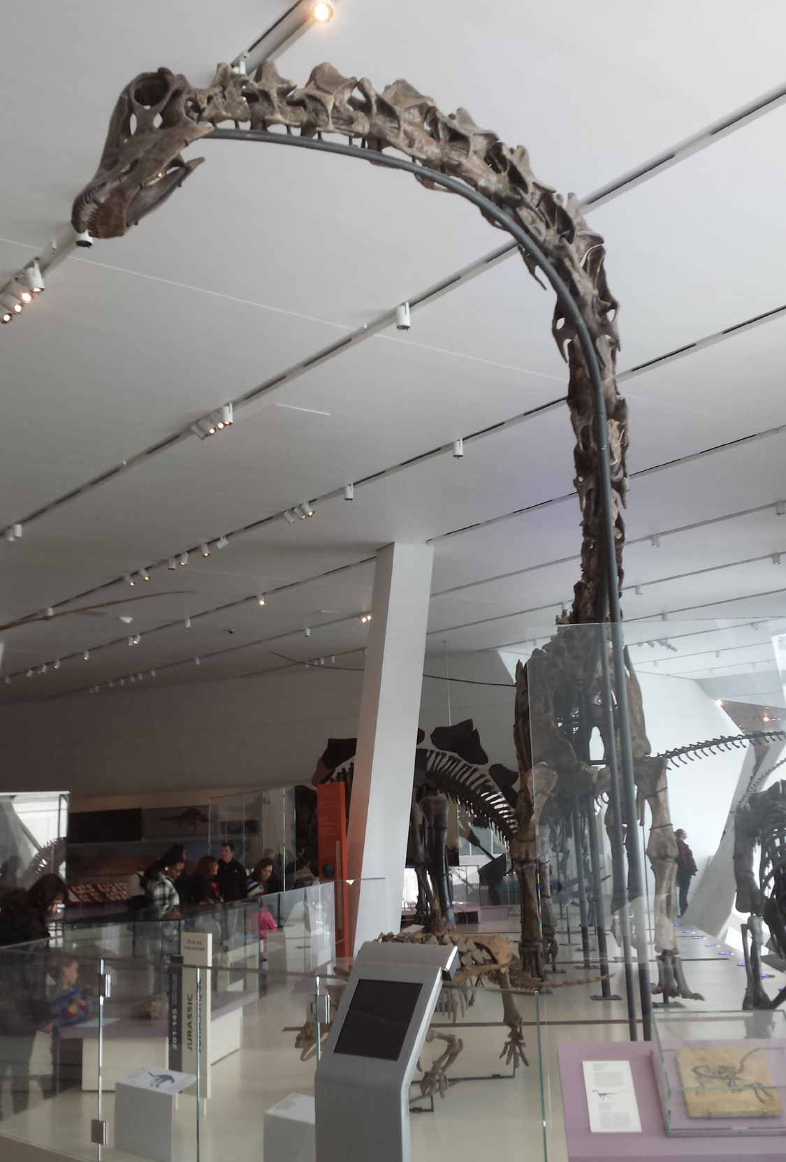 Giant plant eating dinosaur Barosaurus of the Sauropod group at Royal Ontario Museum, Toronto.